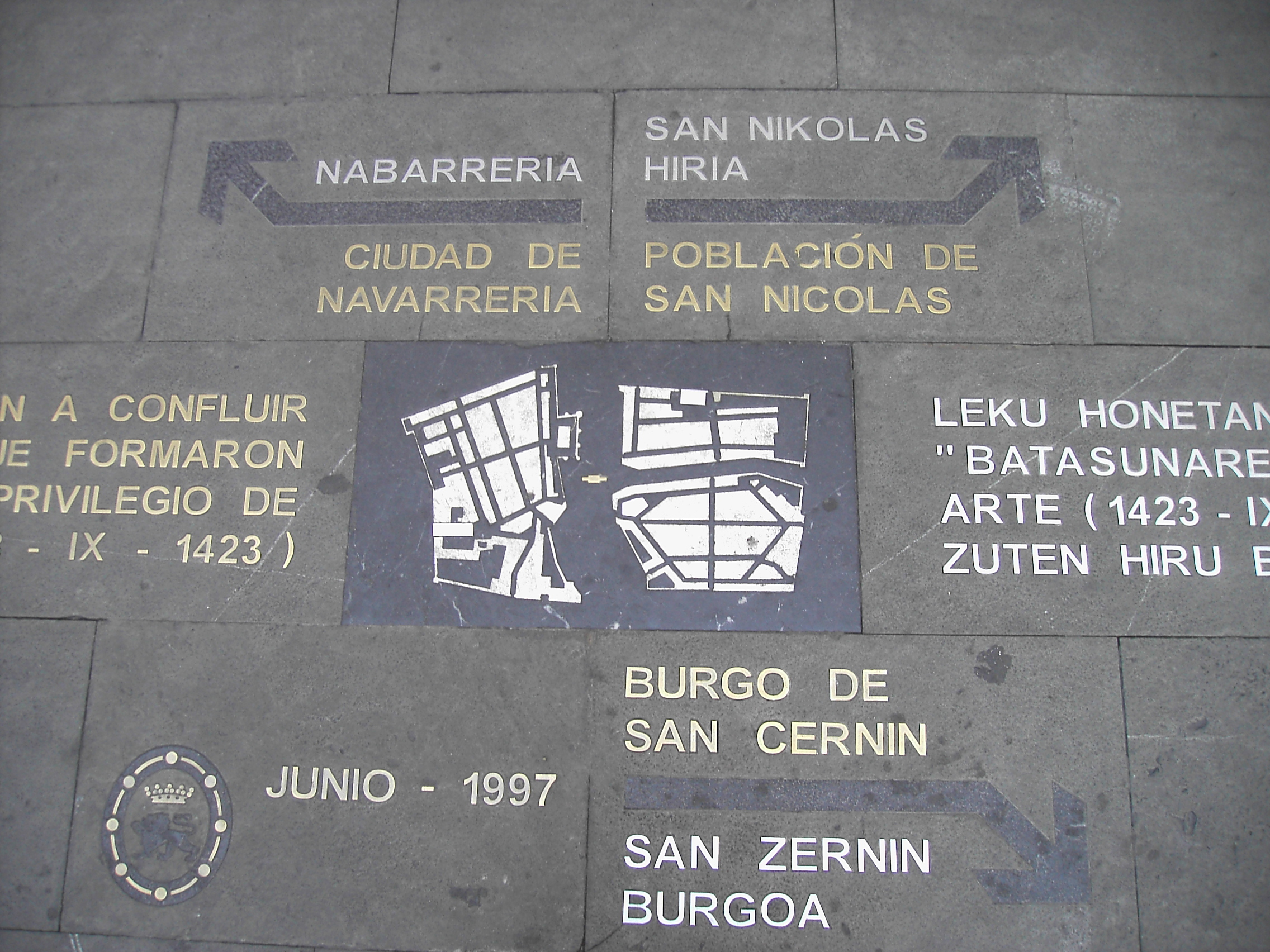 Location of ancient burgs in Pamplona, Navarre